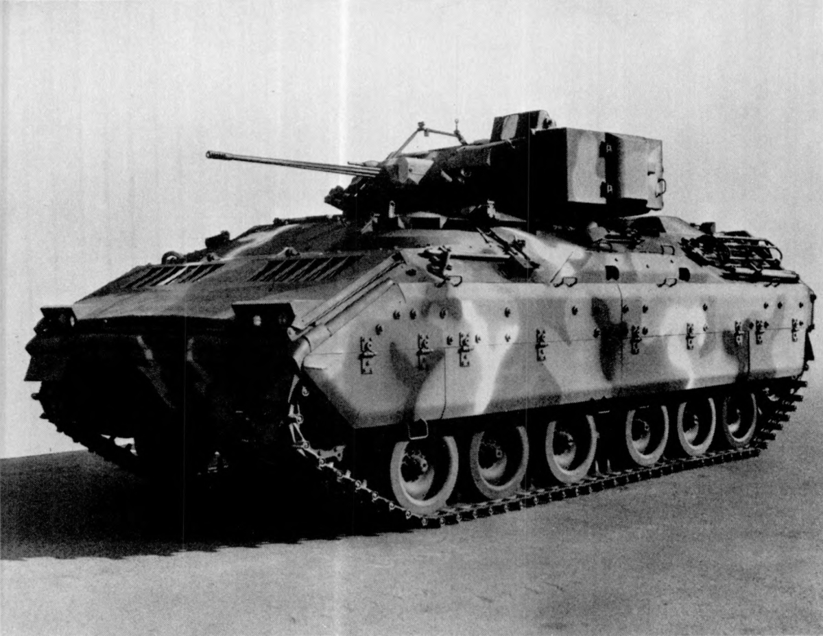 Then-unnamed IFV later designated Bradley Fighting Vehicle with a turret that contained a self-powered gun roll-out on 1 December 1978 at the contractor’s plant in San Jose, California.